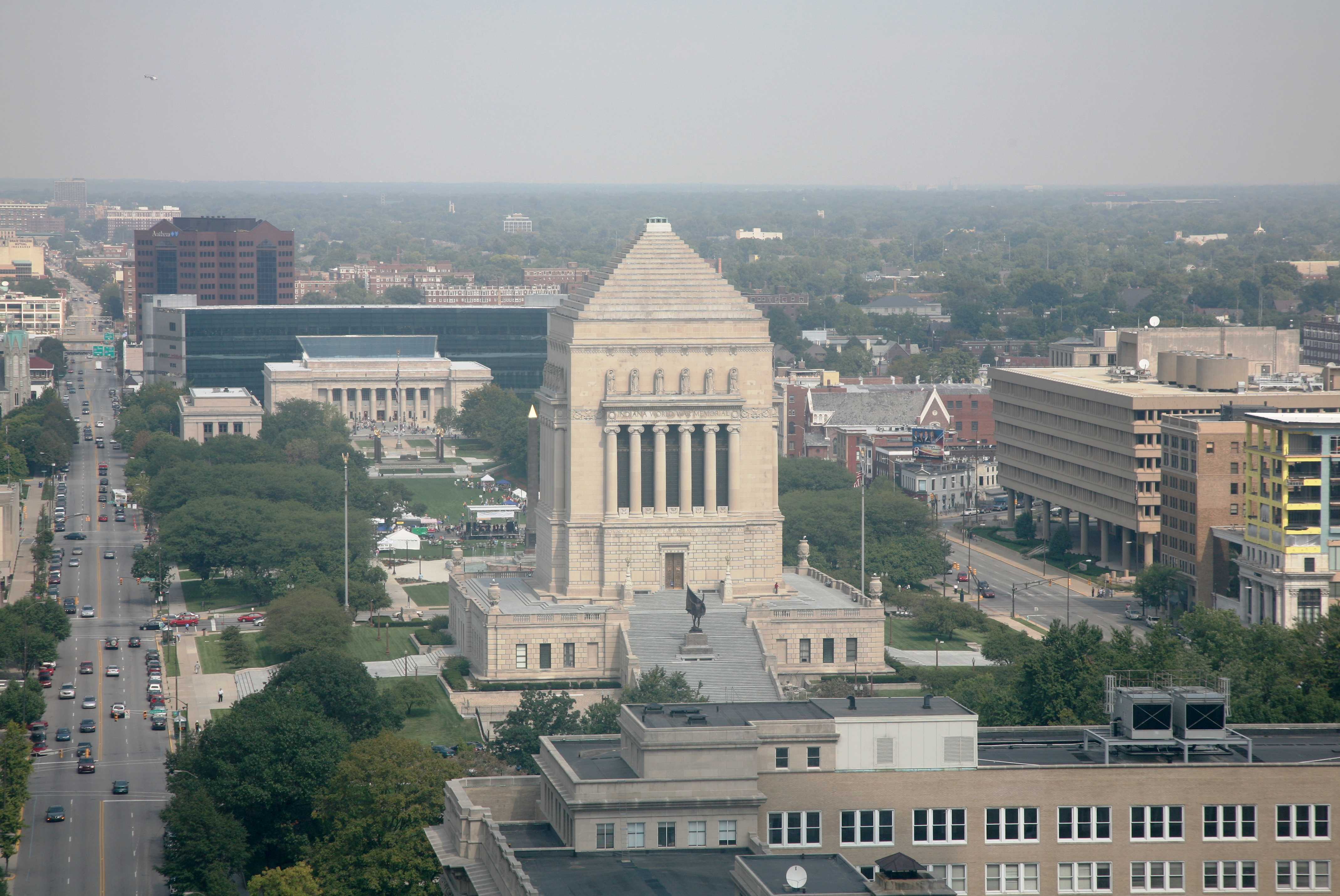 Indiana War Memorial in Indianapolis